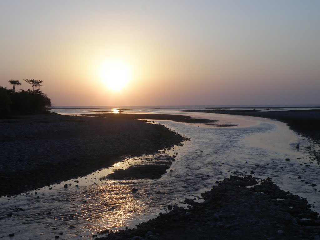 Tono River estuary, Oecusse, 17 Sep 2009.jpg